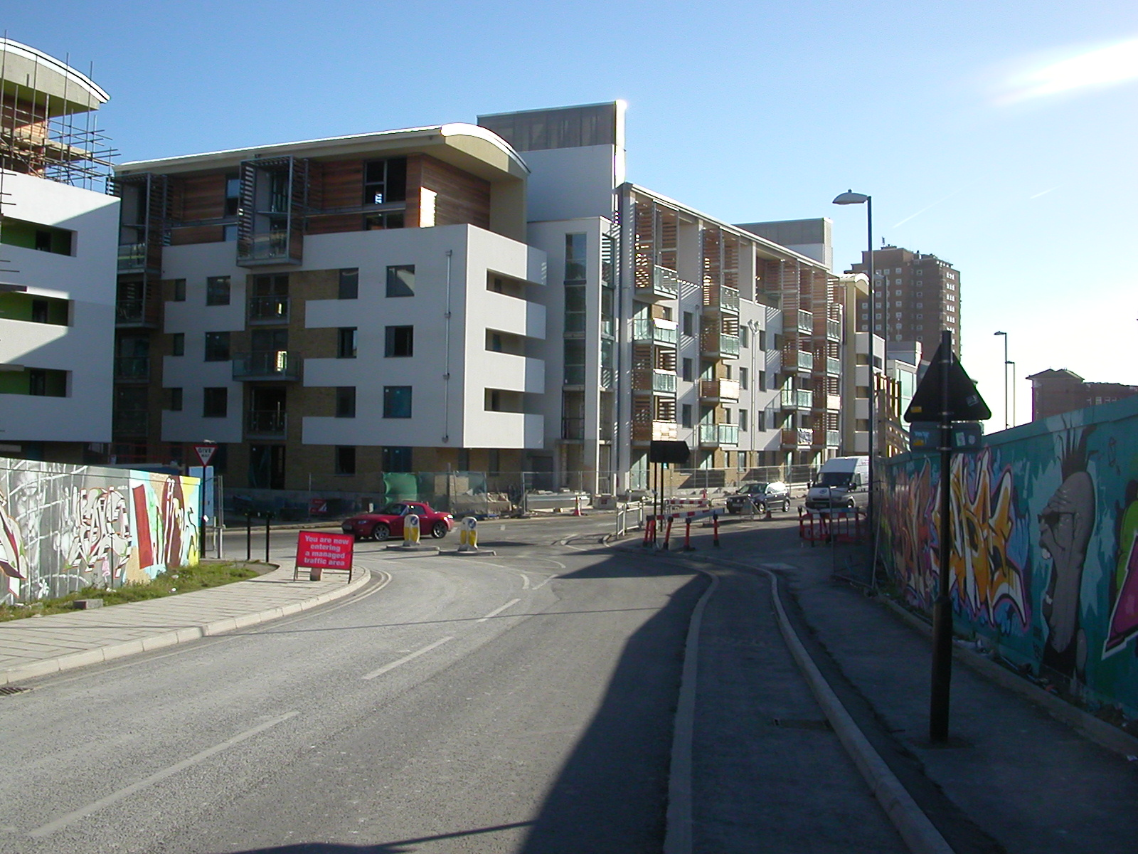 New England Quarter - looking from Stroudley Road towards the core site.